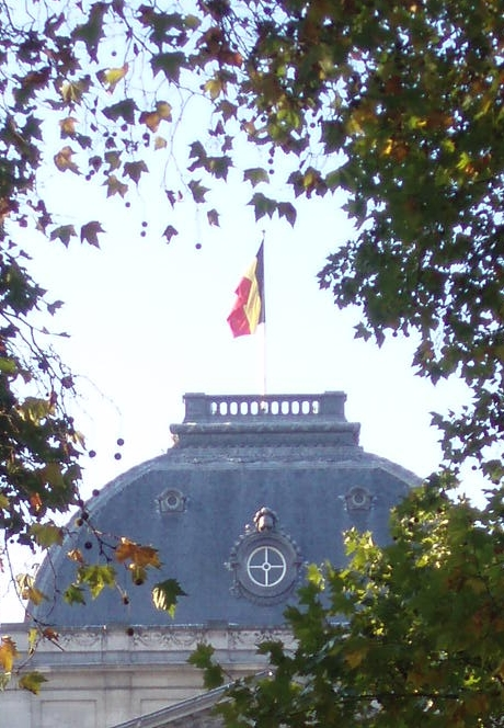 The Belgian flag on the Royal Palace of Brussels, seen from the park. The flag is in the unusual ratio of 4 tall : 3 wide.